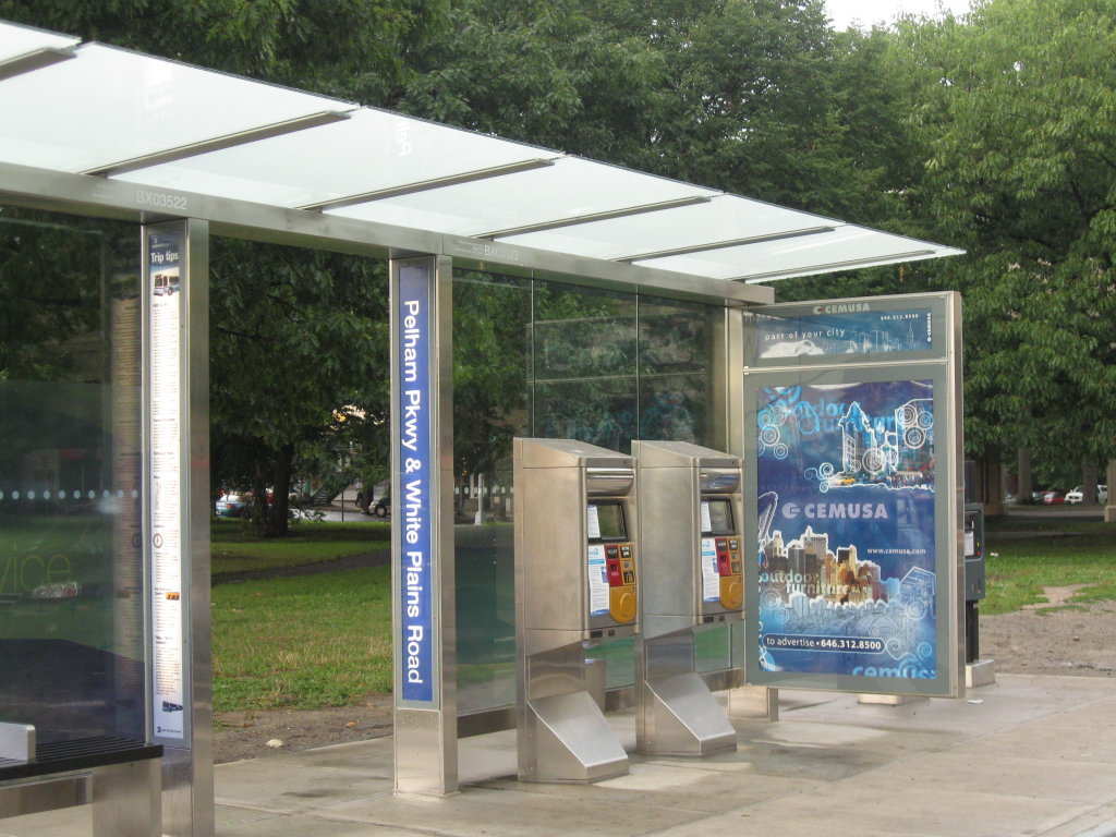 Example of a Select Bus Service shelter used by the Metropolitan Transportation Authority (New York). Note that the MetroCard payment center is in the foreground, and that customers needing to use coins pay in the coin fare collector in the background, behind the ad panel. Fare is not sold at Select Bus Service shelters.